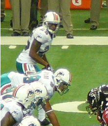 Will Allen (cornerback) and Jason Taylor (American football); If used somewhere other than Wikipedia, Nelson, by name.